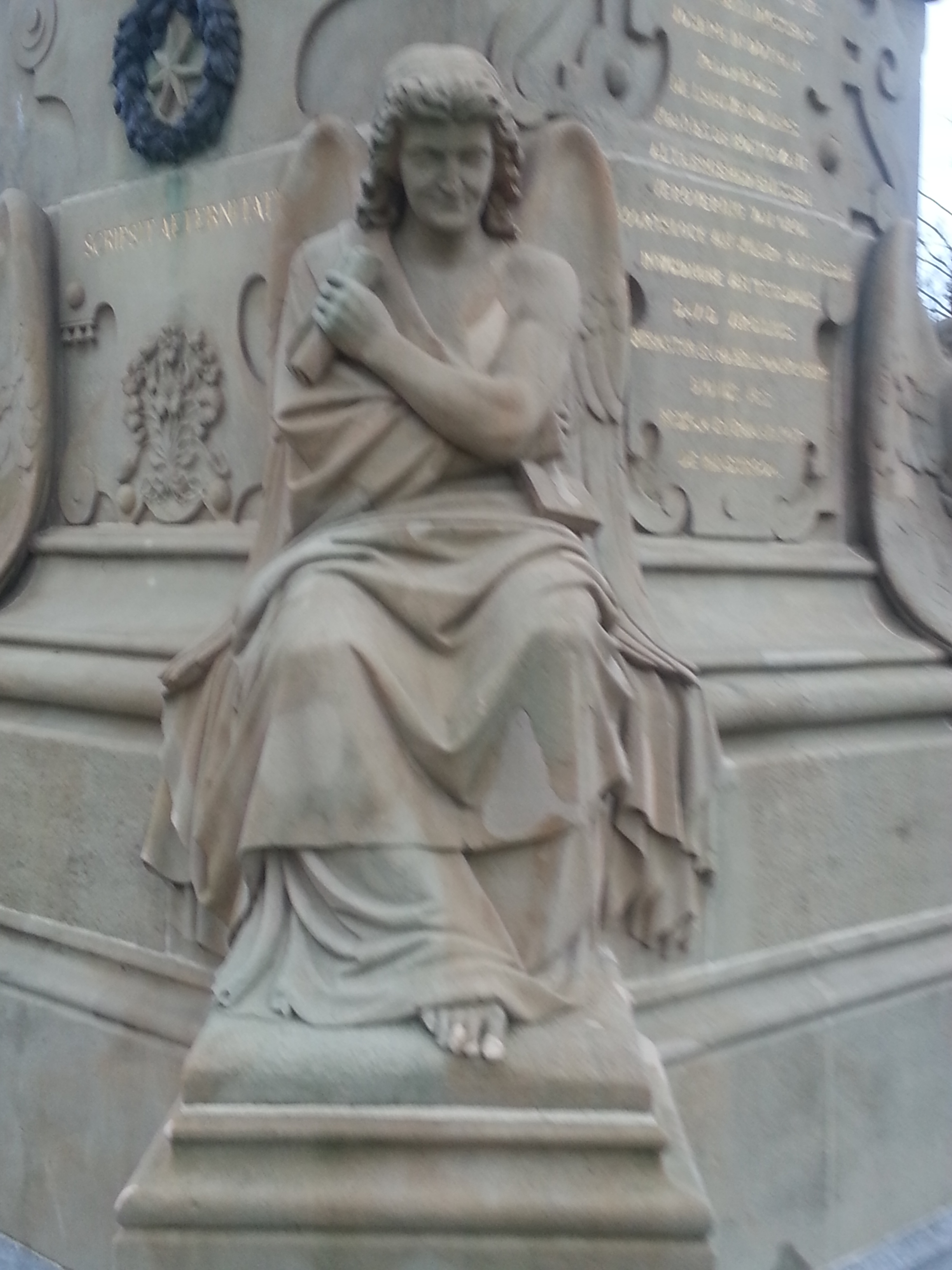 Angel with scroll and galley at Vondelpark